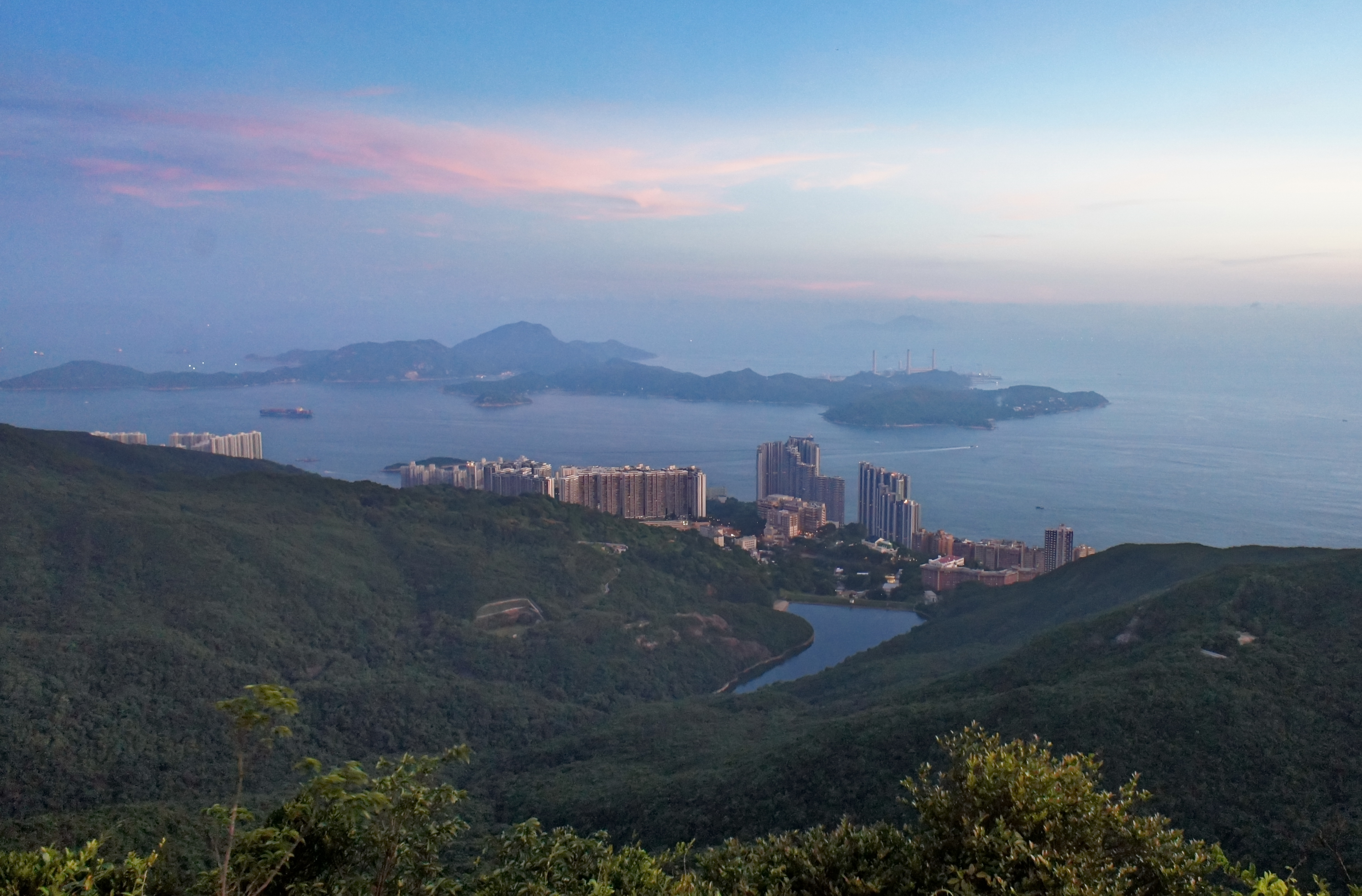 Pok Fu Lam and Lamma Island, Hong Kong.